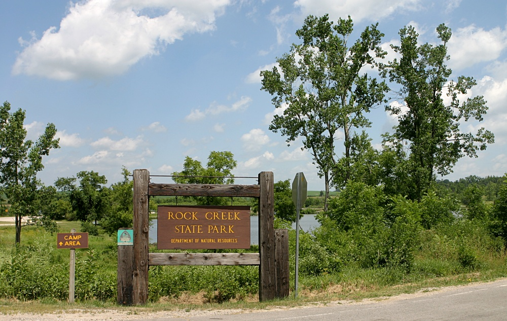 Sign for the Rock Creek State Park in Iowa.